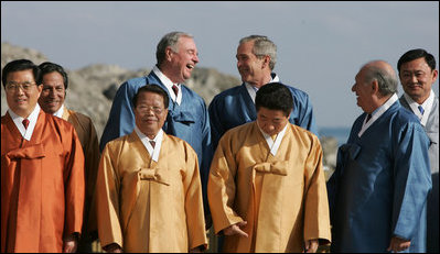 U.S. President Bush and Canada's Prime Minister Paul Joseph Martin break out in laughter Saturday, Nov. 19, 2005, as they stand in on the back riser for the official APEC photograph. From left to right: President Hu Jintao of the People's Republic of China, President Alejandro Toledo of Peru, President Tran Duc Luong of Vietnam, Prime Minister Paul Martin of Canada, President George W. Bush of the United States, President Roh Moo-hyun of South Korea, President Ricardo Lagos of Chile, and Prime Minister Thaksin Shinawatra of Thailand. Costume: Hanbok